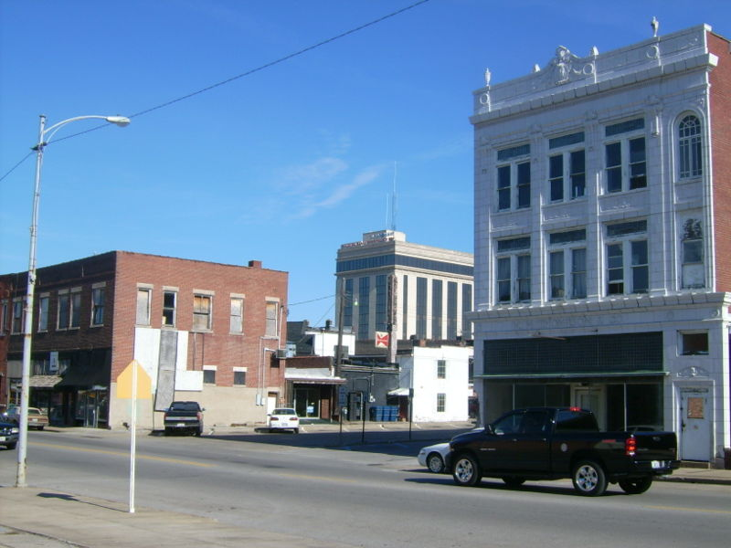 Self-Made Photo of Harrisburg Illinois, Main Street Category:Images of Harrisburg, Illinois